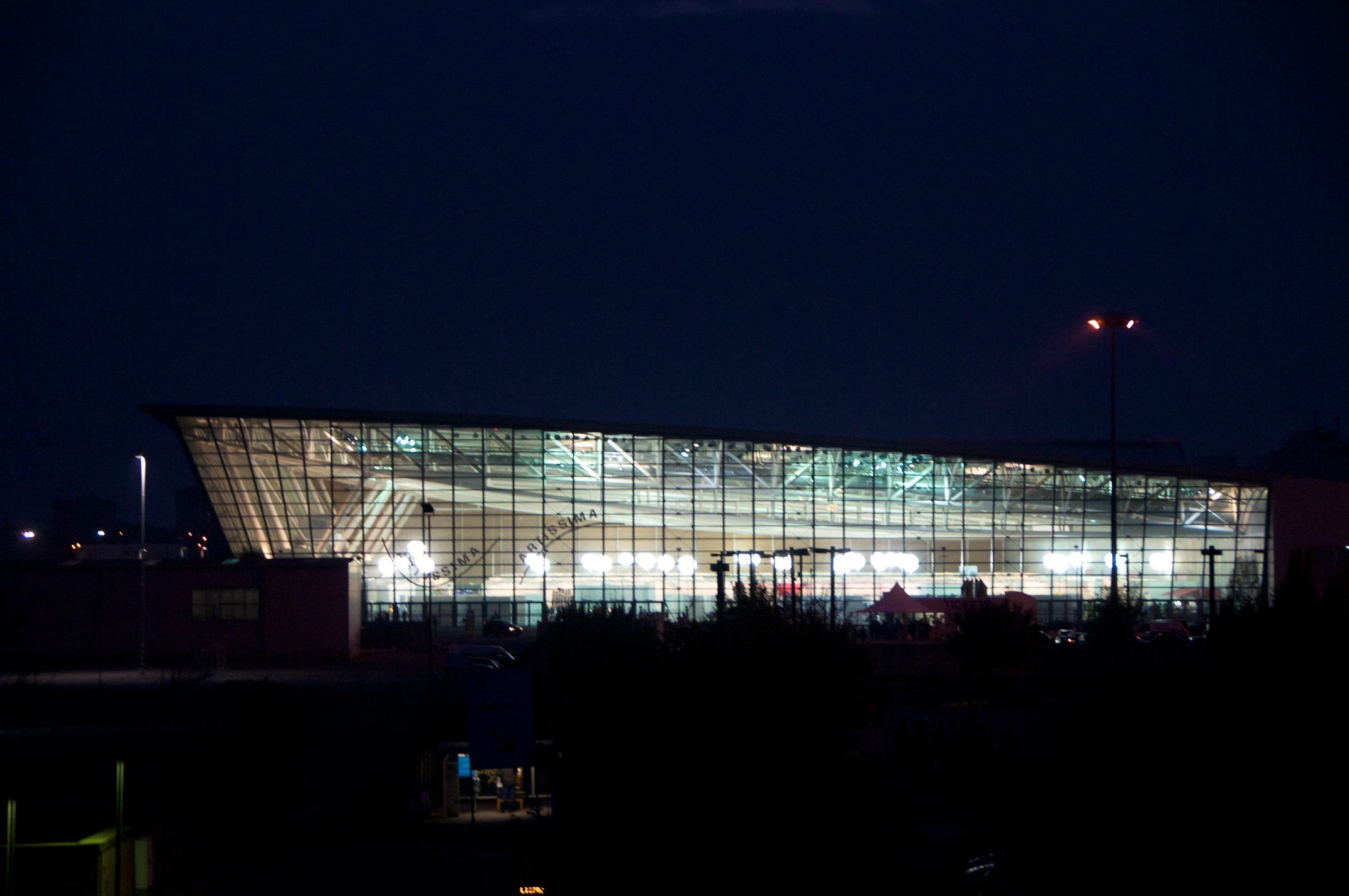 Oval Lingotto, Oval Olympic Arena